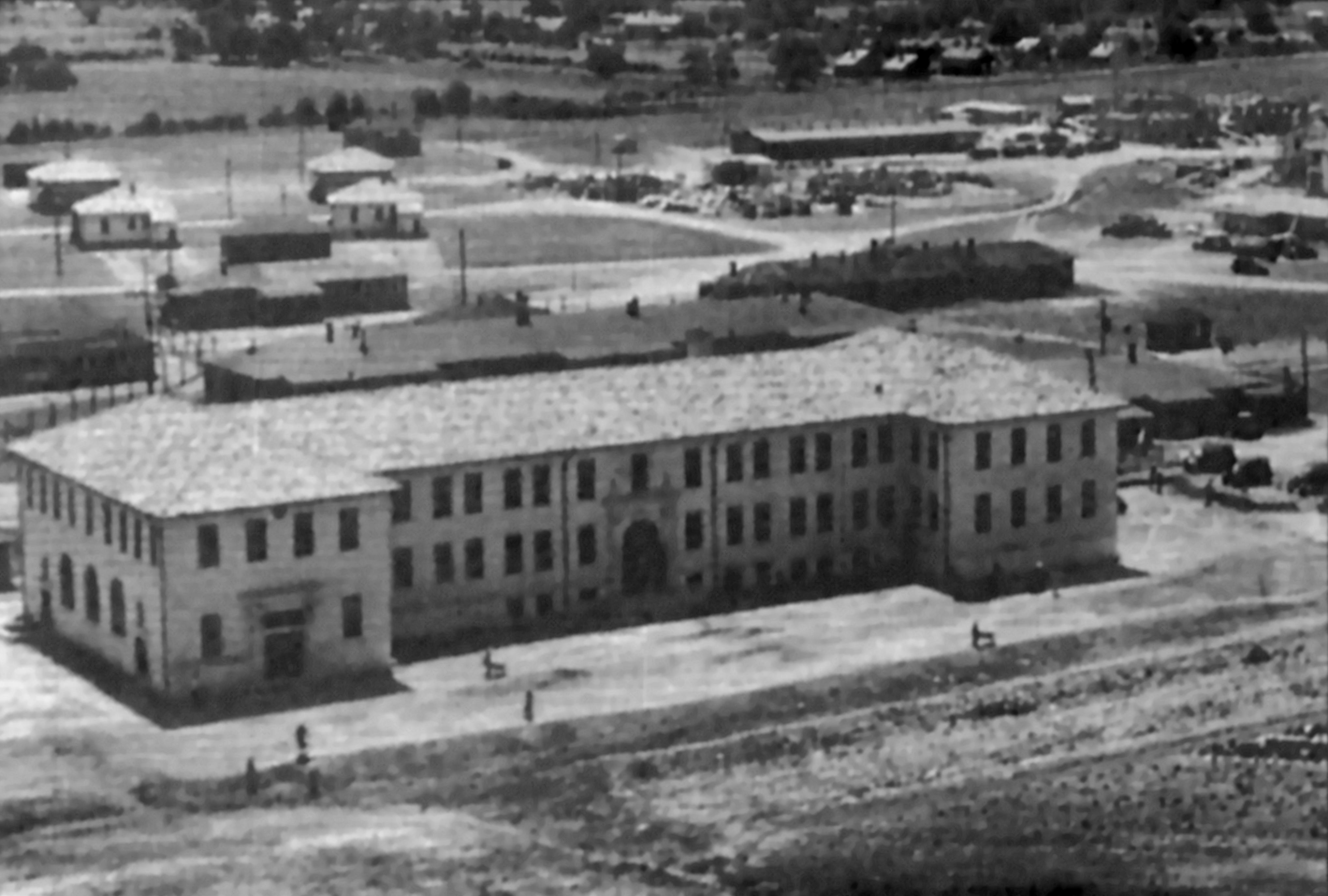 Image from the public domain book A Concise History of the U.S. Air Force by Stephen L. McFarland. Caption reads, "The Air Corps Tactical School at Maxwell Field in Alabama. Air officer training was first established in 1922 at Langley Field in Virginia under the Air Service Field Officers School, later redesignated the Air Service Tactical School."